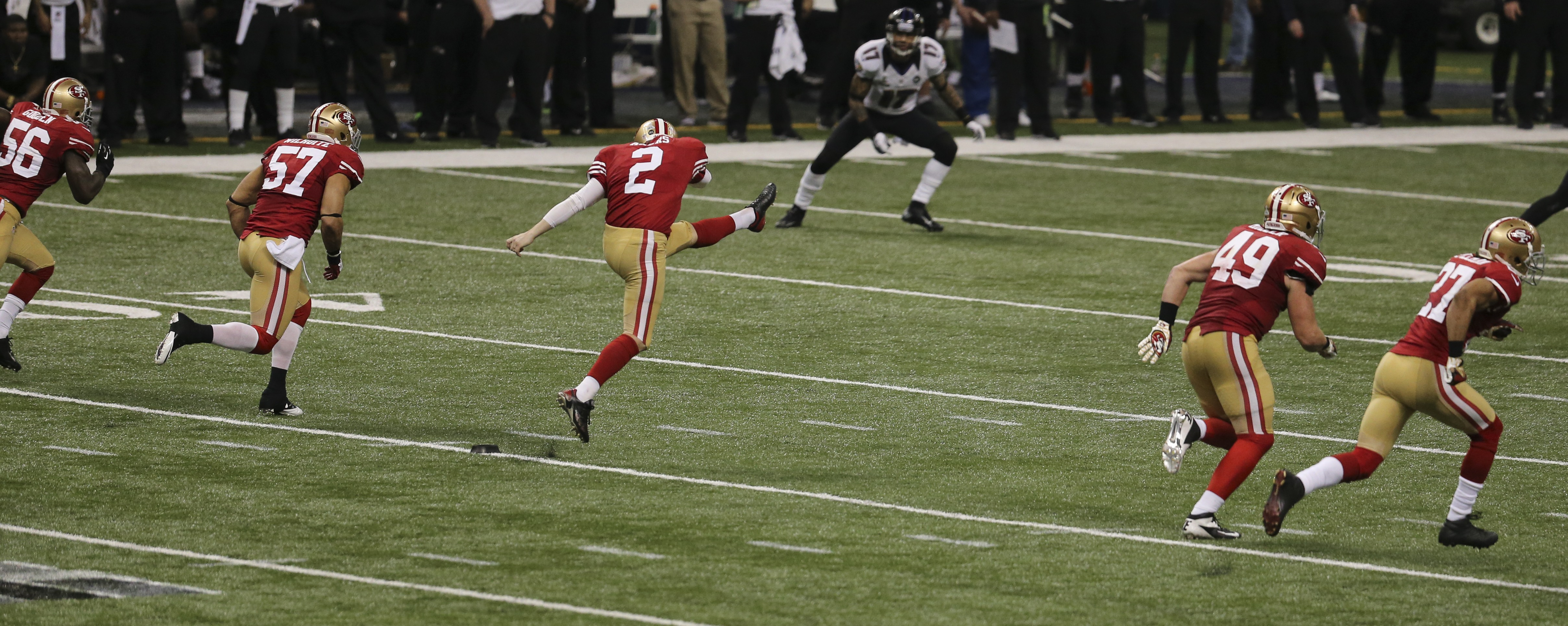 The San Francisco 49ers special teams unit during Super Bowl XLVII.